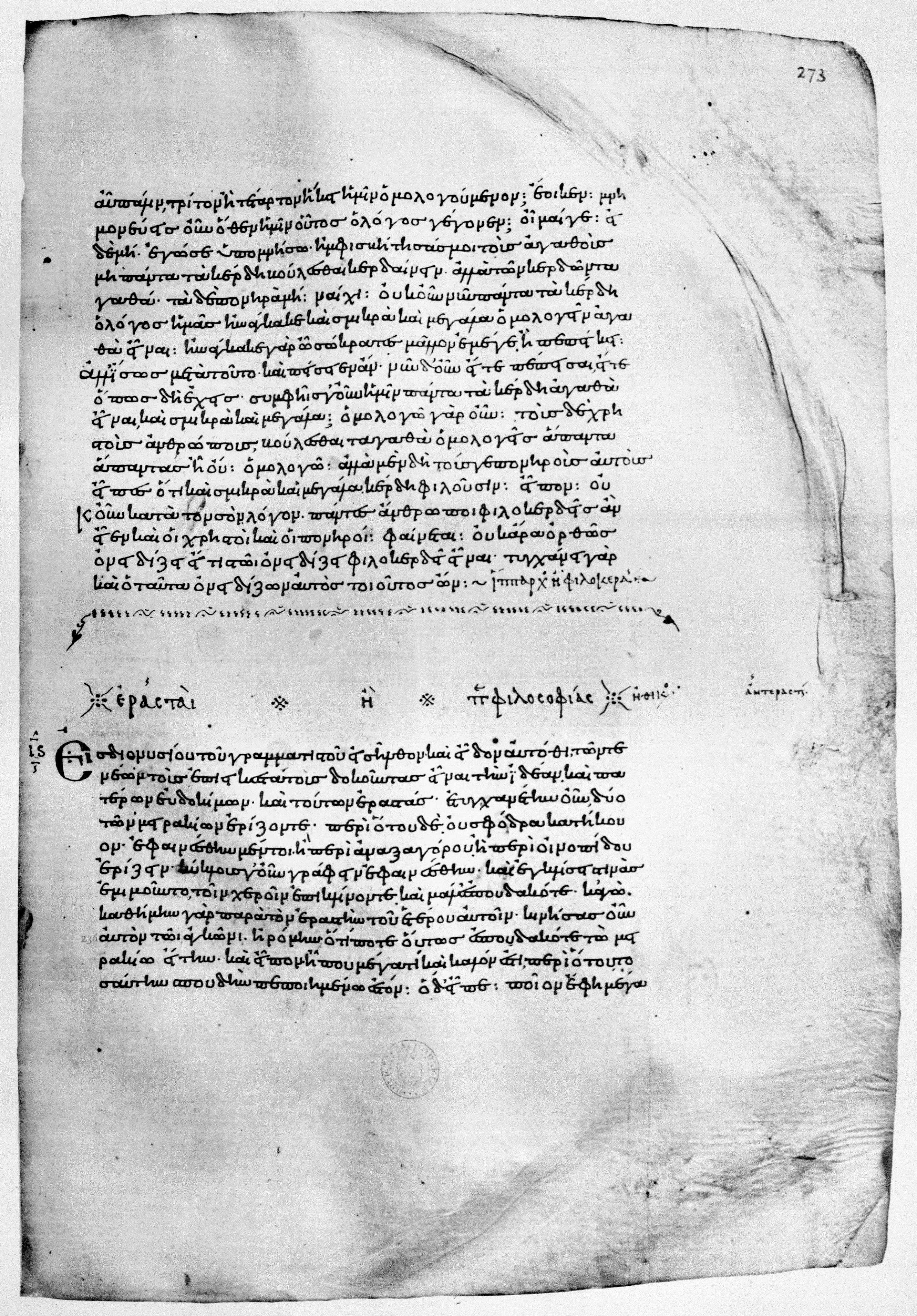 Page of the Codex Oxoniensis Clarkianus 39 (Clarke Plato). Dialogue Erastai.